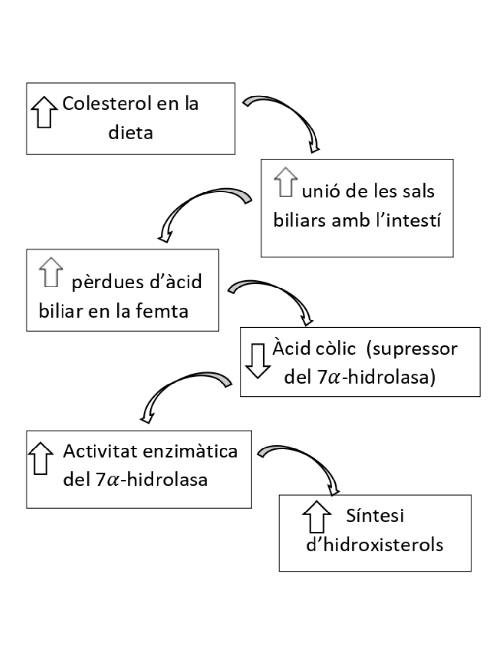 Colesterol i hidroxisterols